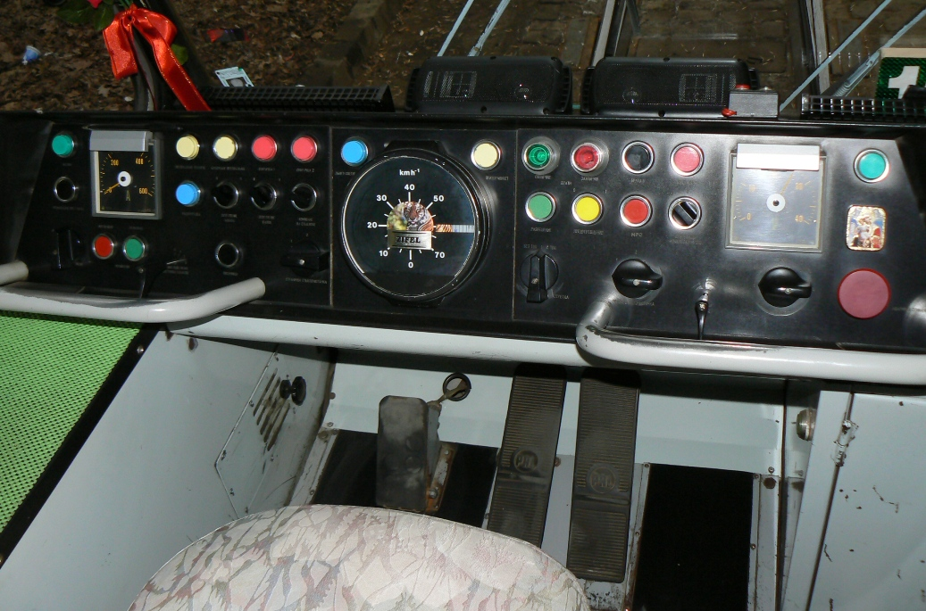 Control board of a tramway